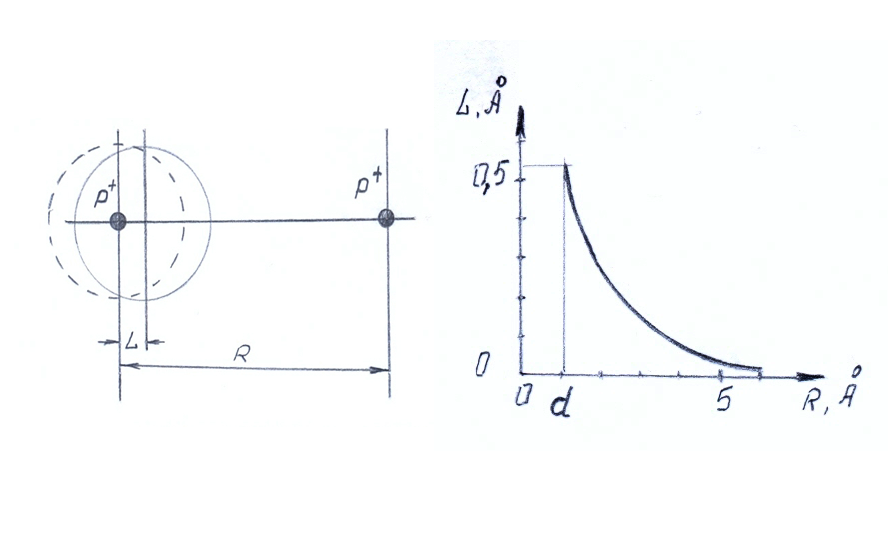 Deformation polarization of the hydrogen atom in an electric field of the proton.